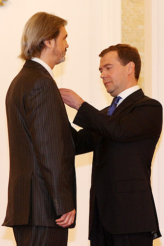 THE KREMLIN, MOSCOW. A national award has been awarded to Andrei Kovalchuk for his creation of important patriotic sculptural images and his contribution to developing the plastic arts in Russia.